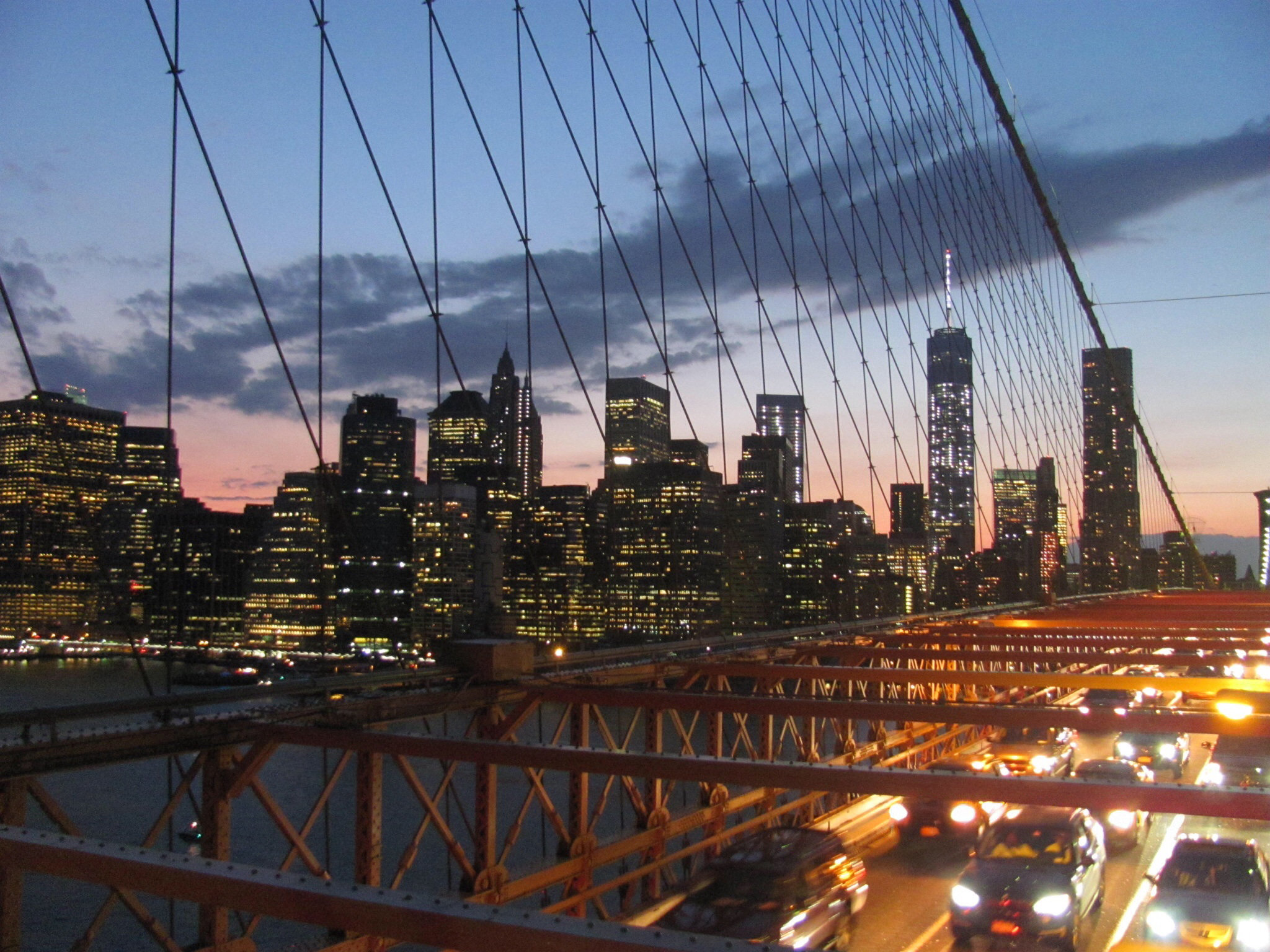 Brooklyn Bridge with view over Manhattan by night